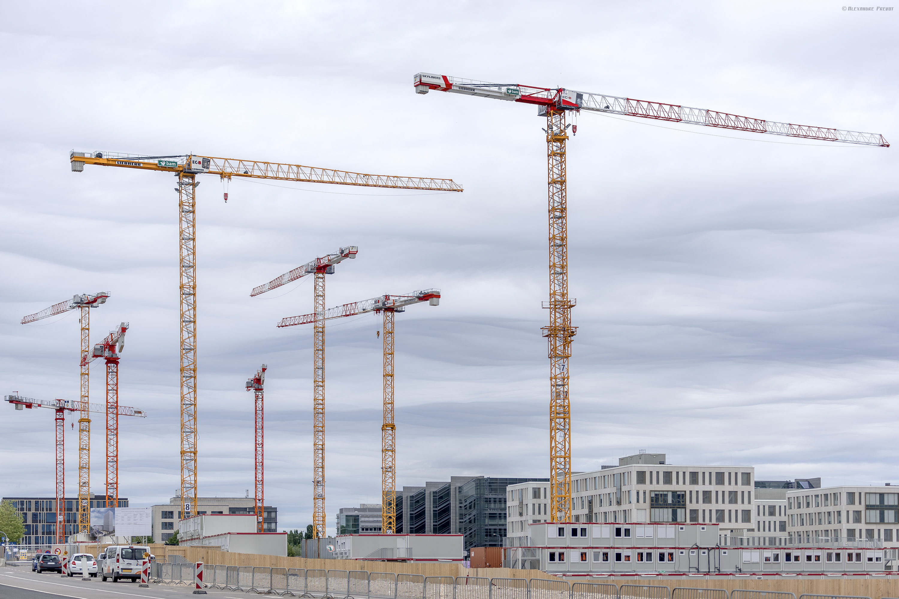 Construction of the Jean Monnet 2 building of the European Commission in the European District of Kirchberg, Luxembourg City. The building replaces the original Jean Monnet building and is to completed in two stages, with the first stage expected in 2023. Photo taken on 4 July 2020.